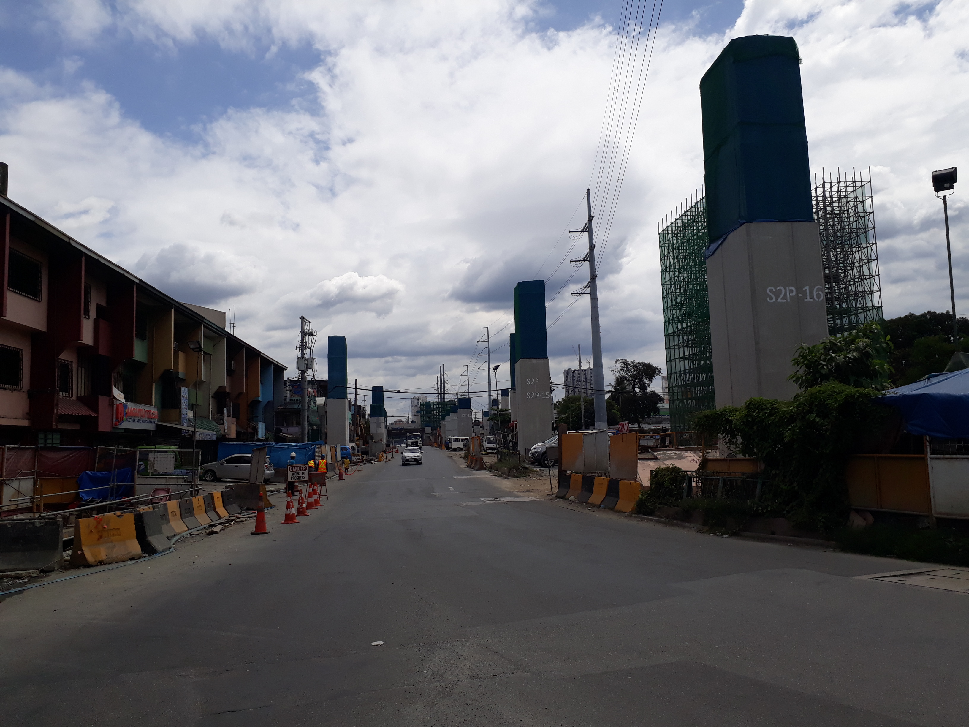 Skyway Stage 3 project (Nagtahan section) at Pres. Quirino Ave., Pandacan, Manila